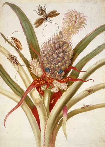 "Pineapple and cockroaches